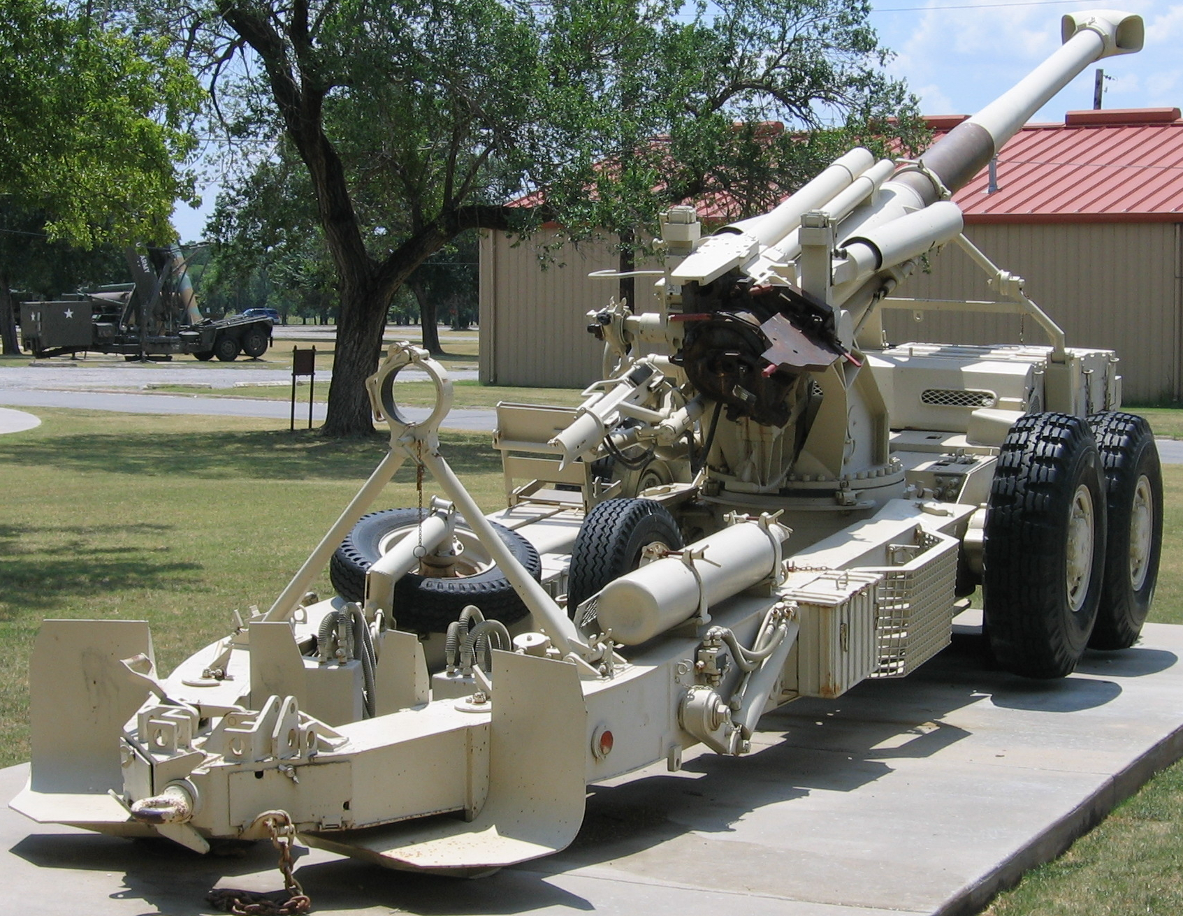 Rear view of an ex-Iraqi G-5